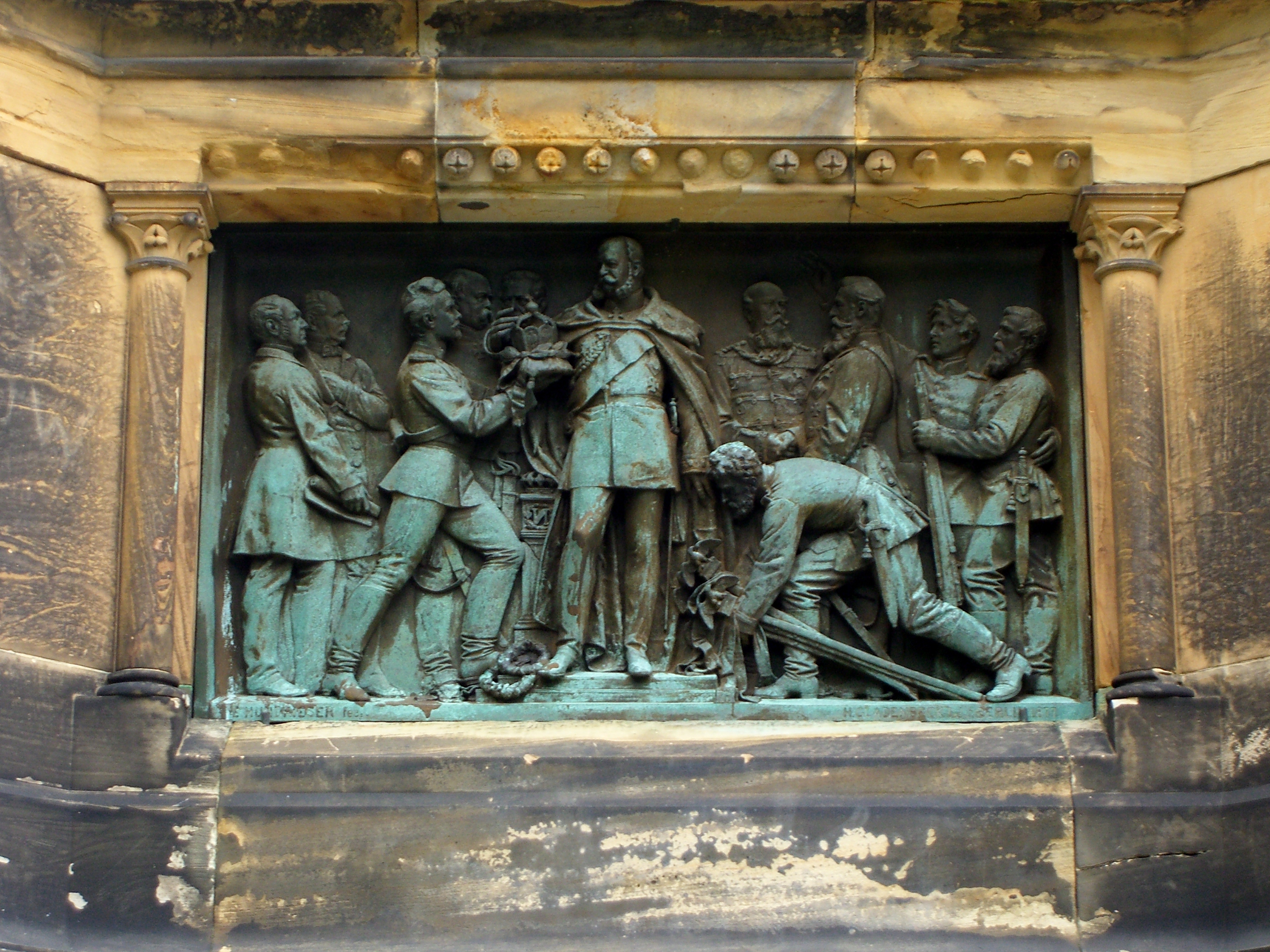 War memorial 1870/71 in Magdeburg, detail, sculpted by Emil Hundrieser in 1877